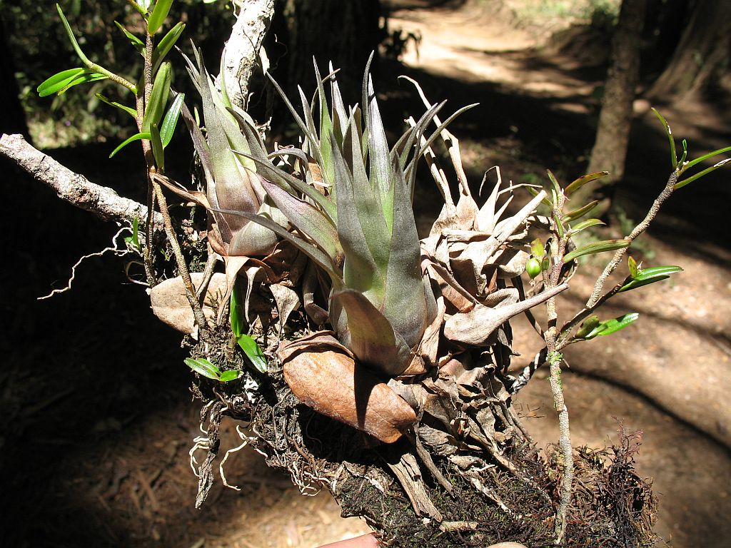 Tillandsia cryptopoda, in habitat in El Salvador, Dept. Santa Ana, Parque Nacional Montecristo; 1841m.